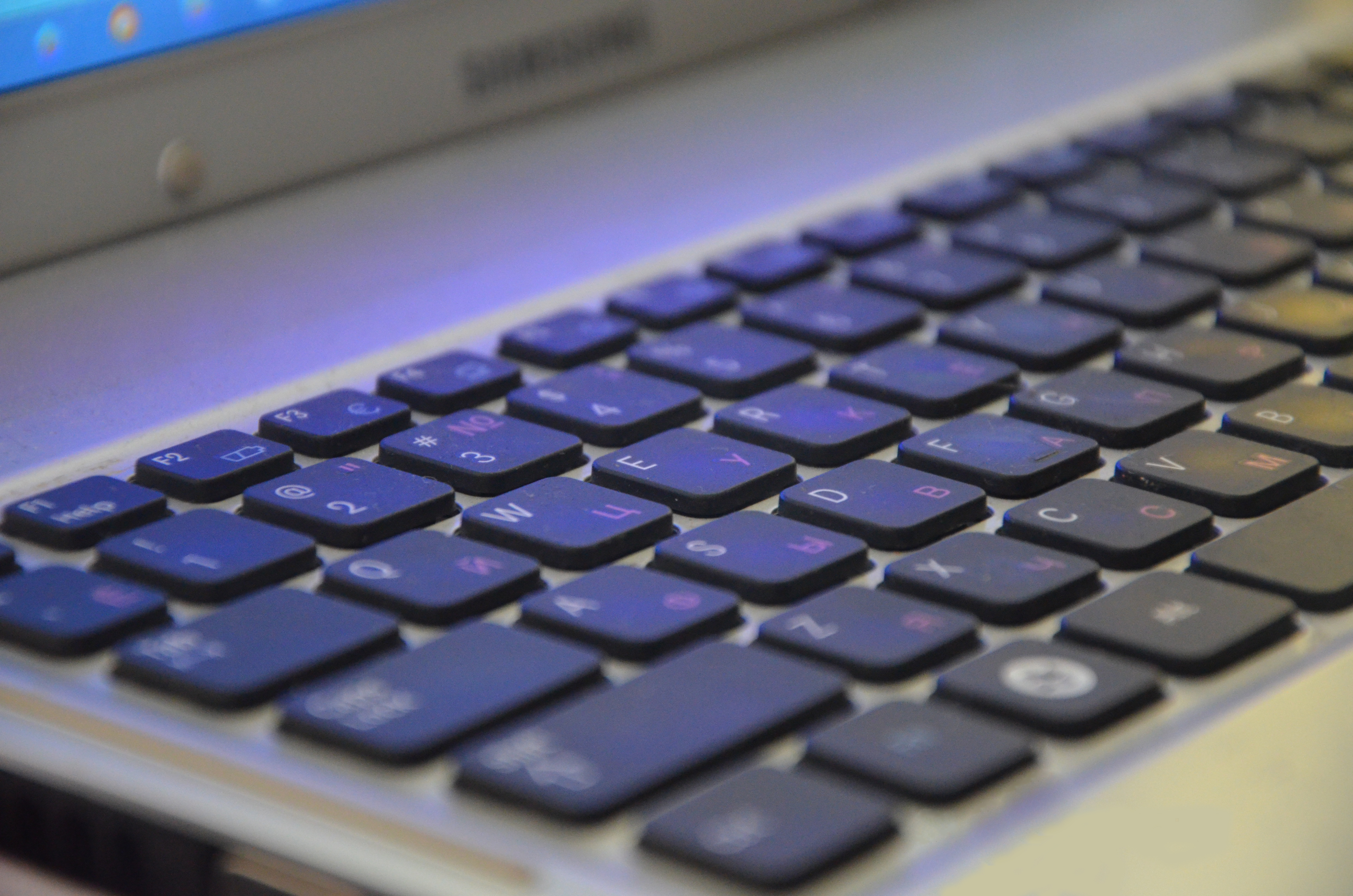 Клавиатура на ноутбуке